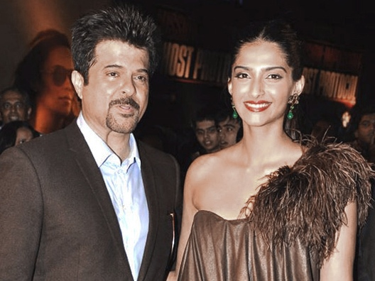 Anil Kapoor with his daughter Sonam Kapoor at the special screening of 'Mission Impossible - Ghost Protocol' at Mumbai in December 2011.